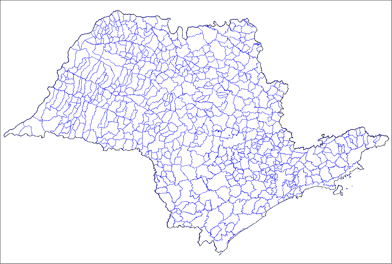 Map of the municipalities of the state of Sao Paulo, Brazil. Created by Rarelibra 13:37, 25 August 2006 (UTC) for public domain use. Created using MapInfo Professional v8.5 and various mapping resources.